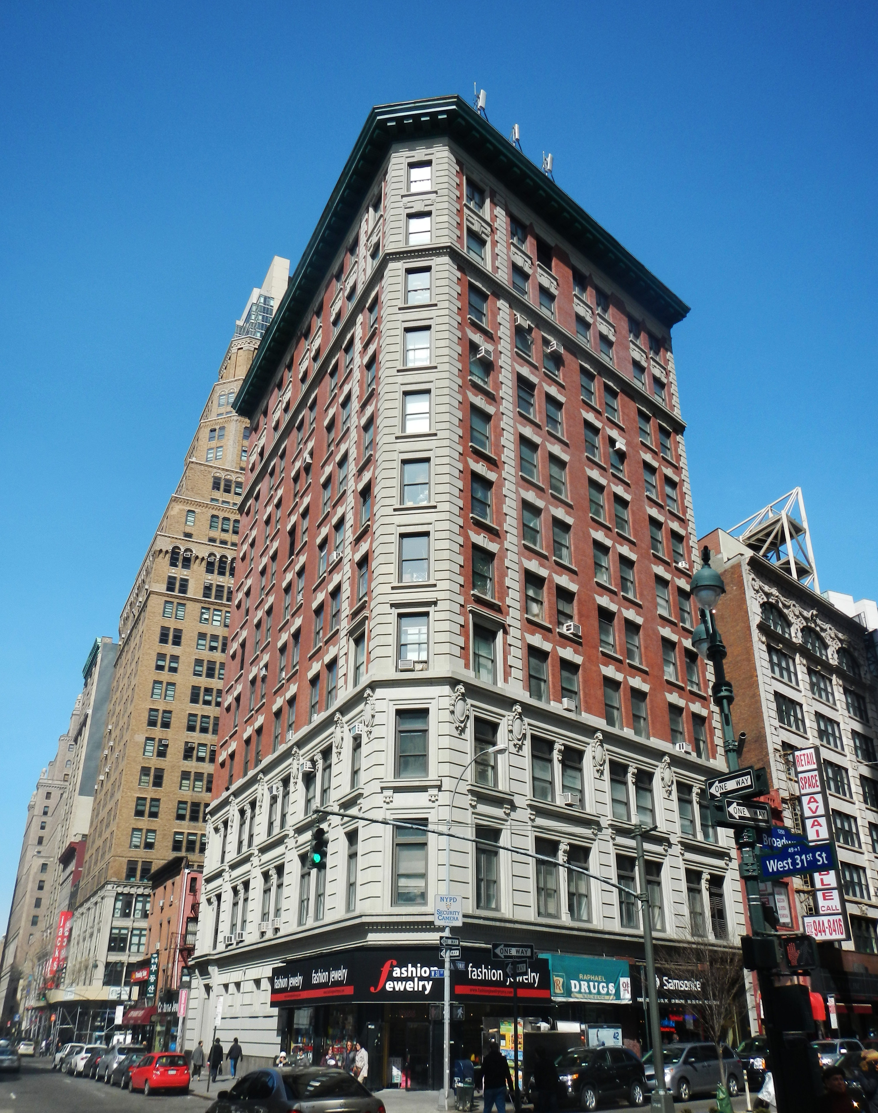 Looking northwest at 1255 Broadway on a sunny morning.